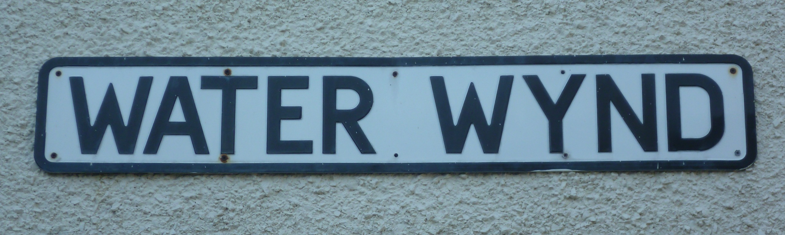 Street sign for Water Wynd, Pittenweem, Fife